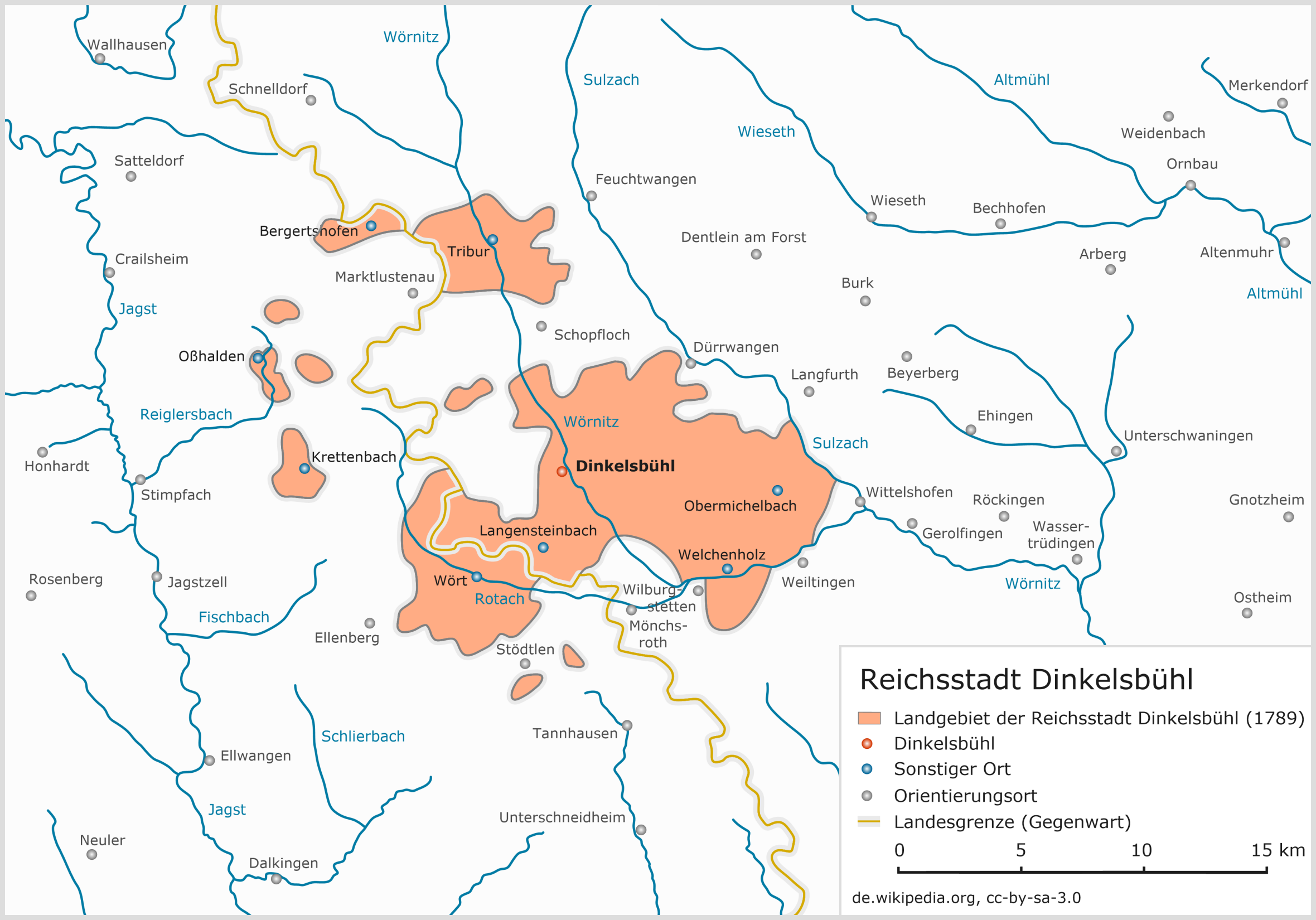 Free Imperial City of DinkelsbühlBahasa Indonesia: Kota Kekaisaran Dinkelsbühl